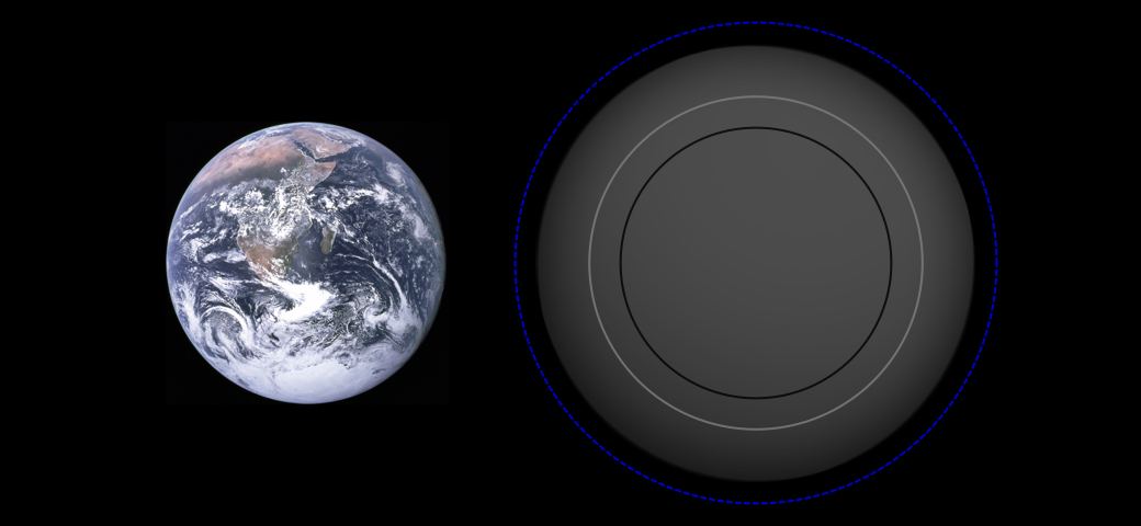 Comparison of several possible sizes for the exoplanet Gliese 581 e with the Solar System planet Earth, using approximate models of planetary radius as a function of mass[1] for several possible compositions, based on mass reported in the Open Exoplanet Catalogue[2] as of 2010-09-30. Models include: water world with a rocky core, composed of 75% H2O, 3% Fe, 22% MgSiO3 hypothetical pure water (ice) planet, the largest size for Gliese 581 e without a significant H/He envelope rocky terrestrial "Earth-like" planet, composed of 67% Fe, 32.5% MgSiO3 hypothetical pure iron planet, Gliese 581 e's theoretical smallest size Gliese 581 e is not likely to be smaller than the iron planet, and will be considerably larger than the water planet if significant H or He is present. For non-transiting planets, all modeled sizes will be underestimates to the extent that the planet's actual mass is larger than the reported minimum mass. ↑ Seager, S.; M. Kuchner, C. A. Hier-Majumder and B. Militzer (2007). "Mass–radius relationships for solid exoplanets". The Astrophysical Journal 669: 1279–1297. Retrieved on 2010-08-27. ↑ Open Exoplanet Catalogue (2010-09-30). Retrieved on 2010-09-30.